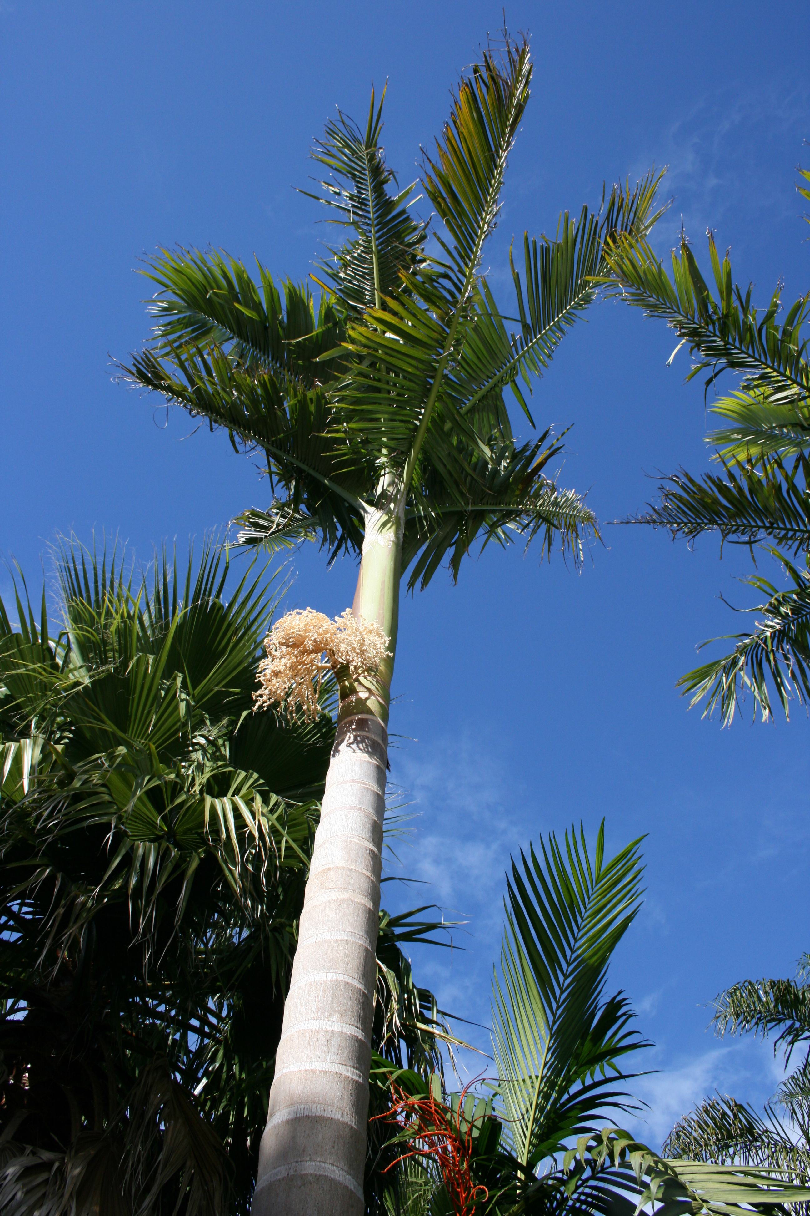 Archontophoenix alexandrae, a palm native to Queensland, Australia, growing in cultivation at Kerikeri, North Island, New Zealand.